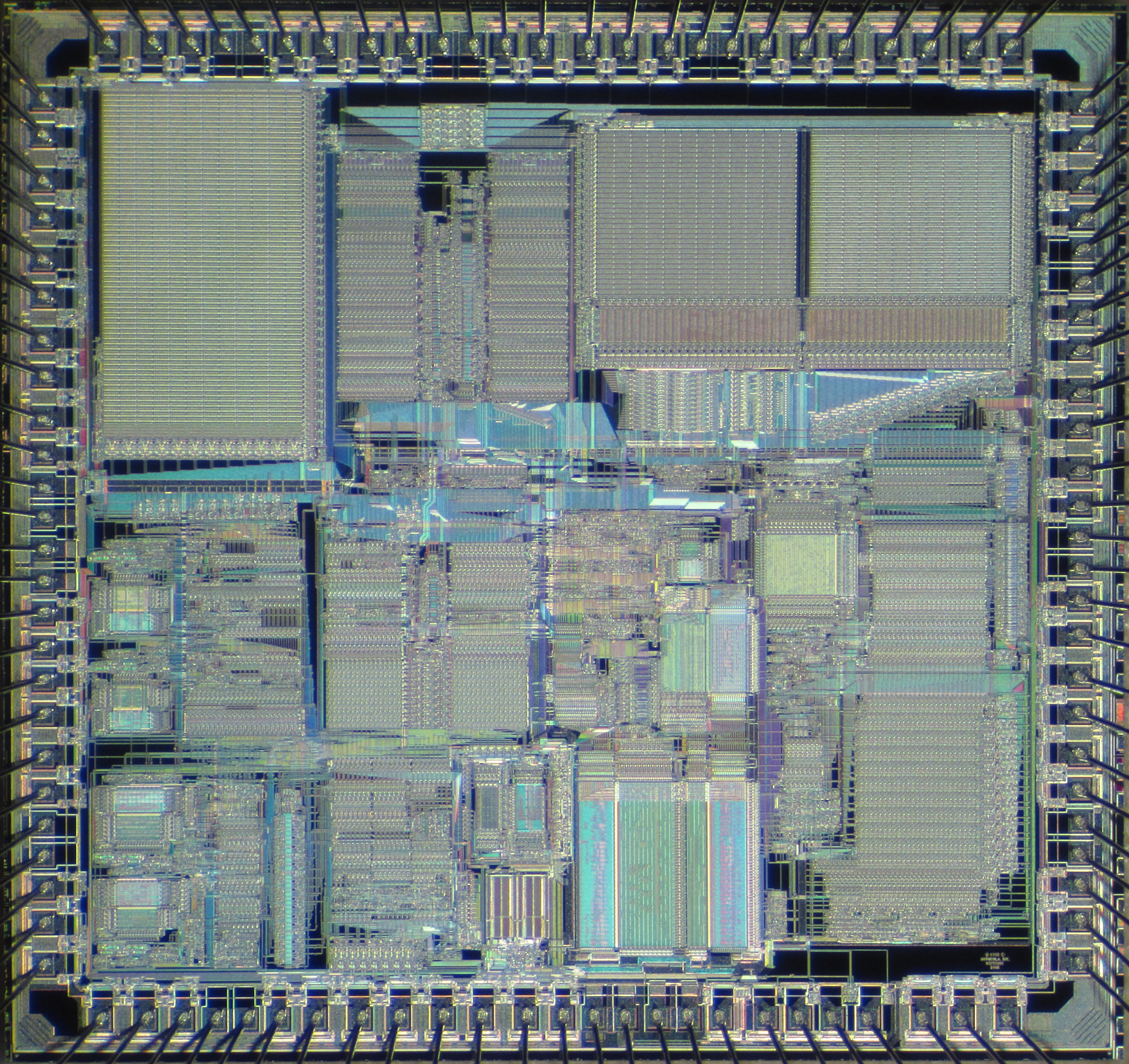 Die shot of Motorola DSP56001 digital signal processor (DSP56001RC33, 3E40B mask).